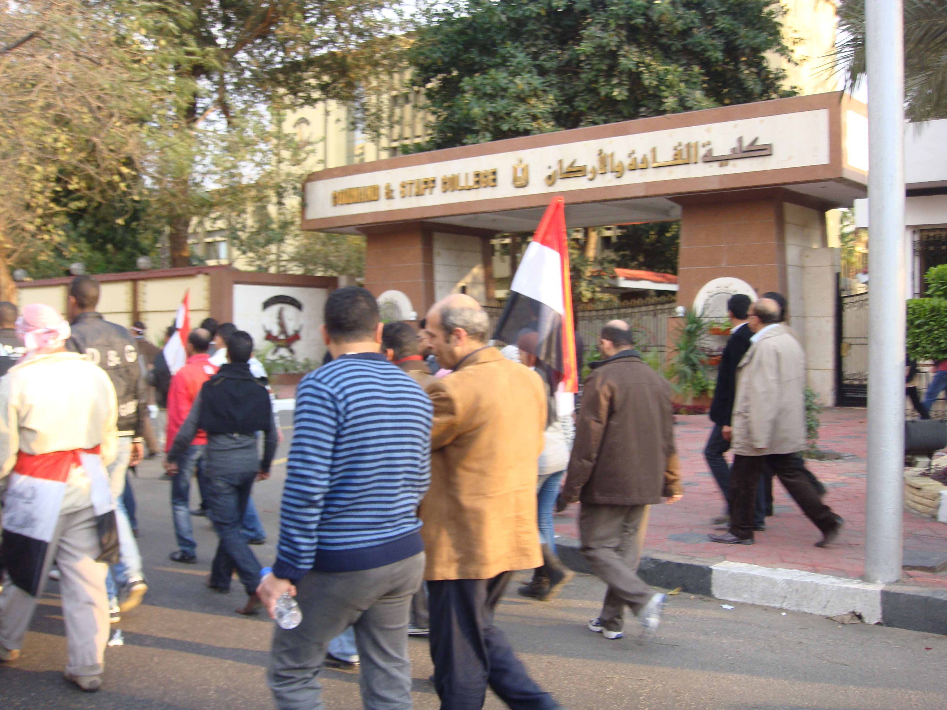 The thousands-strong protest passes by the armed forces' Command and Staff College.